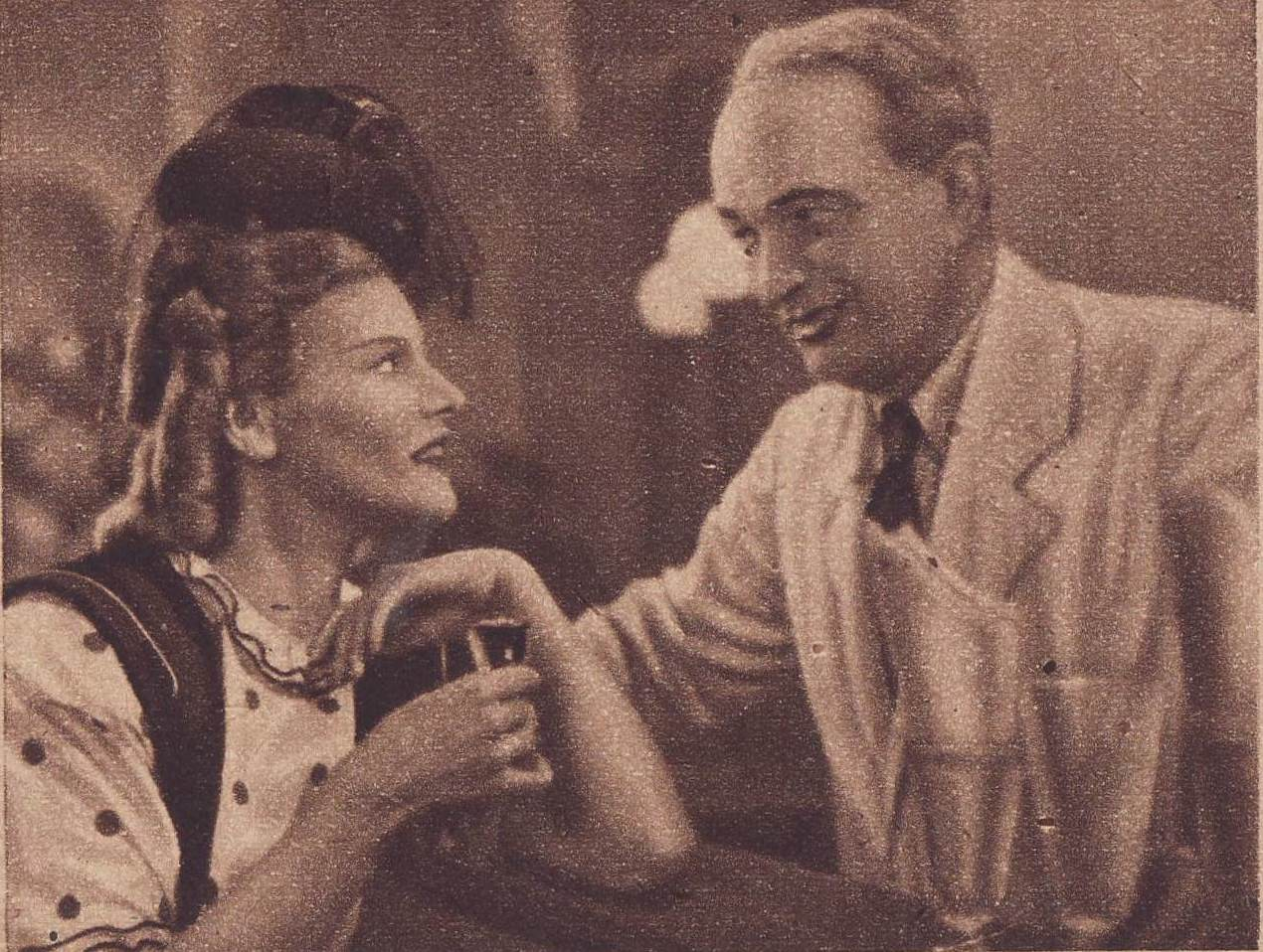 Actors from the Polish movie Dwie godziny (Two hours): Irena Krasnowiecka & Stanisław Grolicki